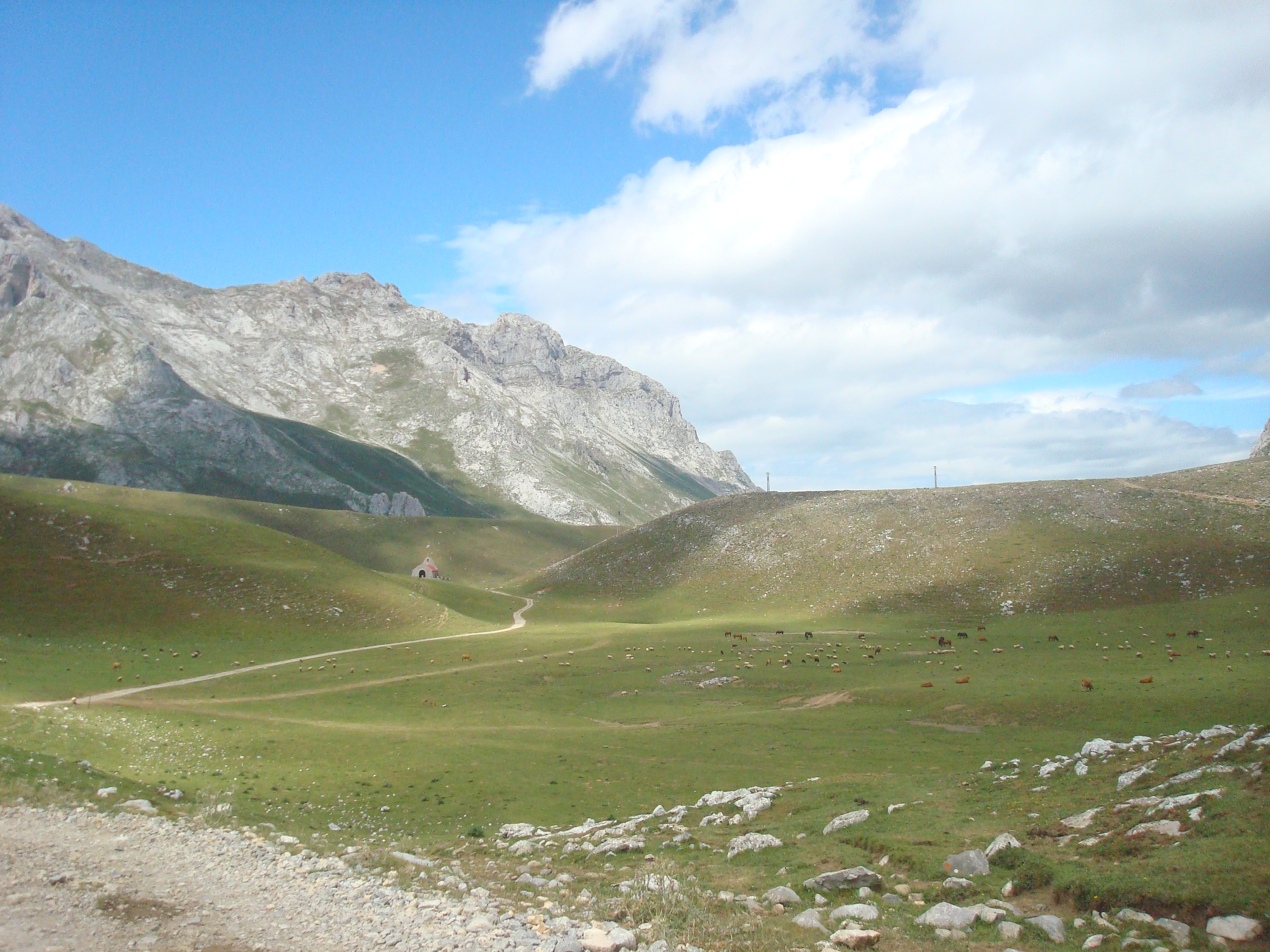 This is a photography of a Site of Community Importance in Spain with the ID: ES0000003. Natura2000 entry, EEA entry